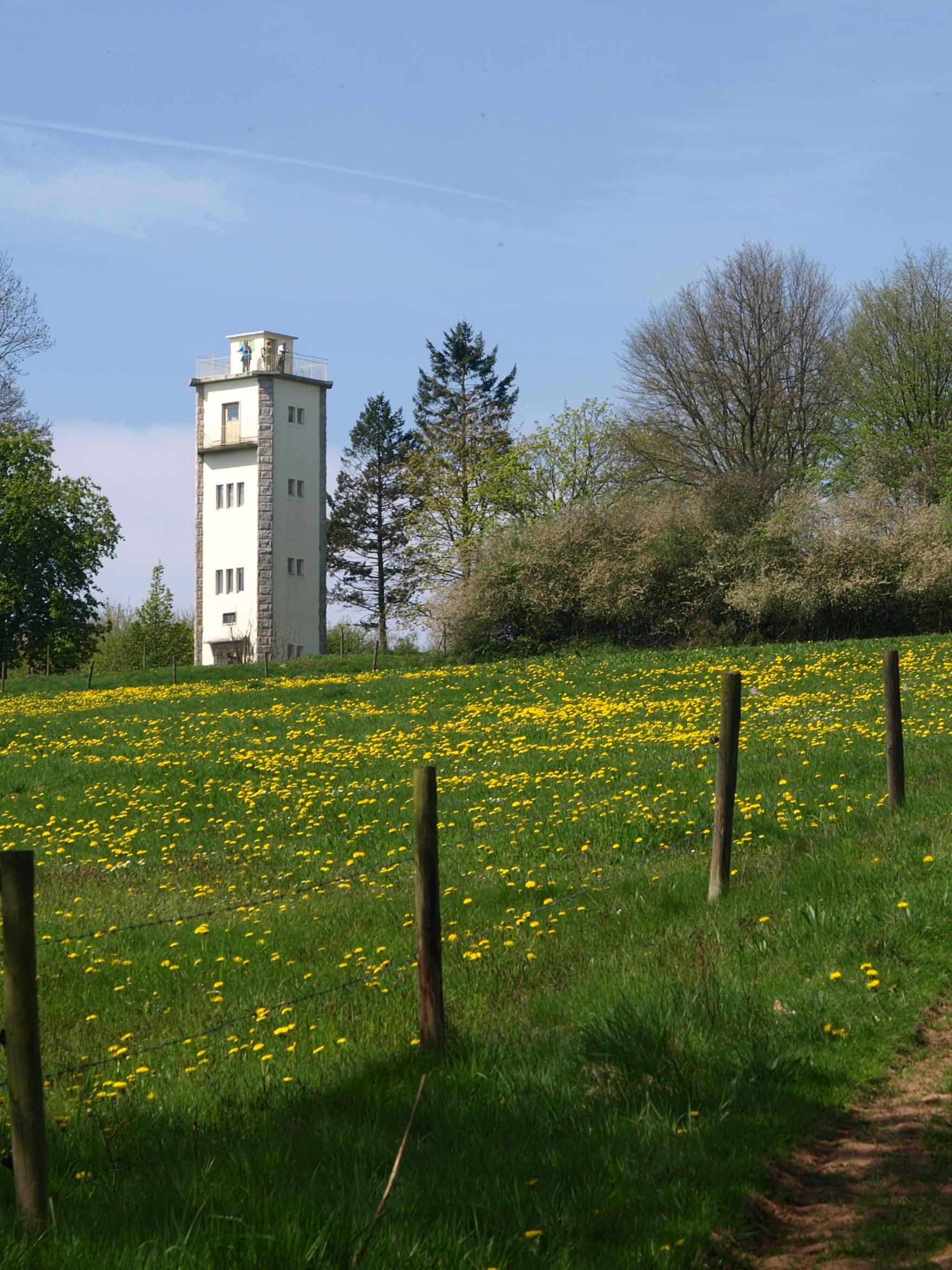 View tower in Bad Hersfeld upon Tageberg. Built in 1930